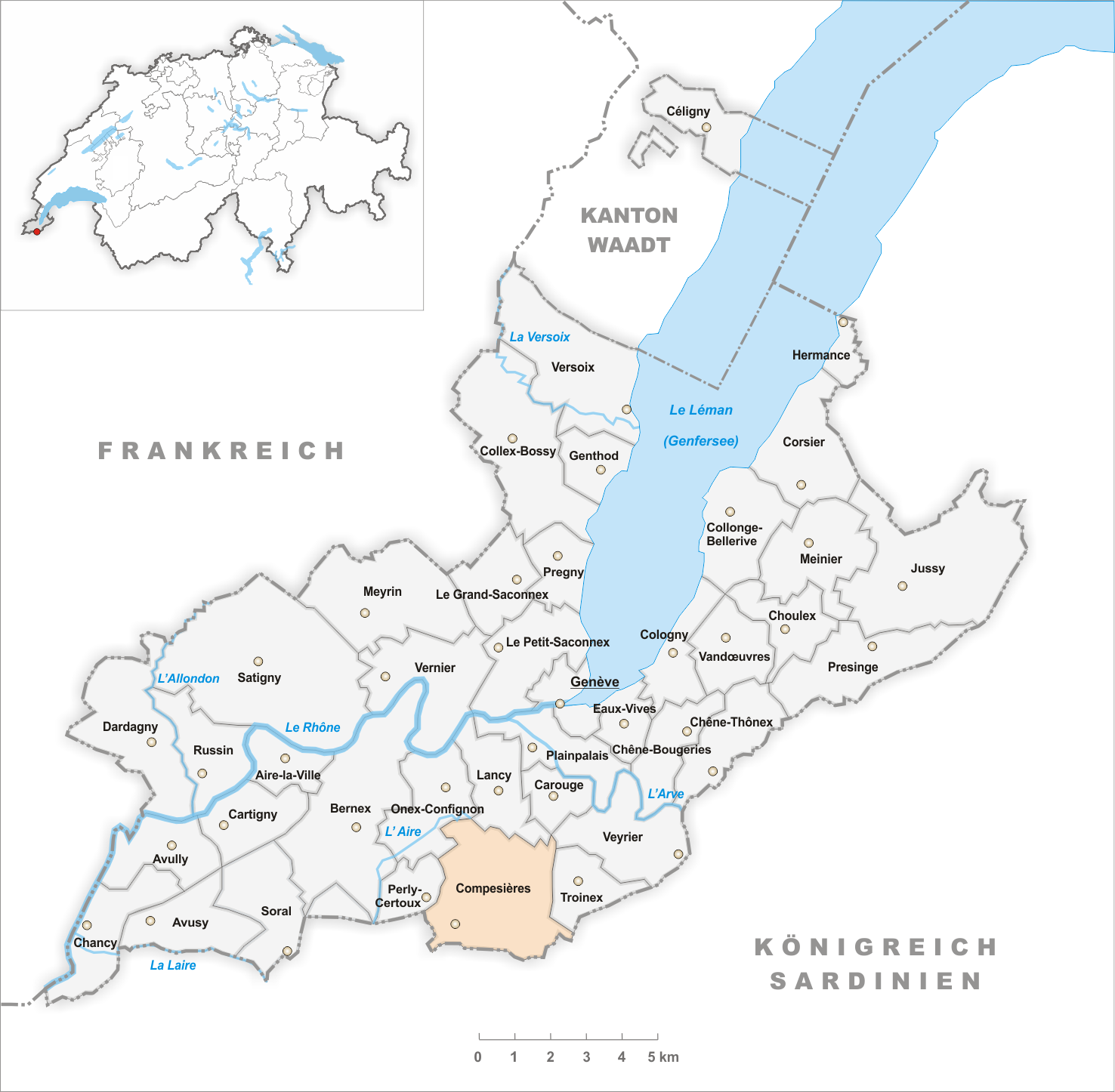 Municipality Compesières Artist: Tschubby